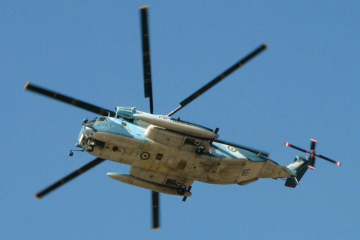 A RH-53D Sea Stallion with registeration 9-2701 in service with Navy of Iran flighting over THR.